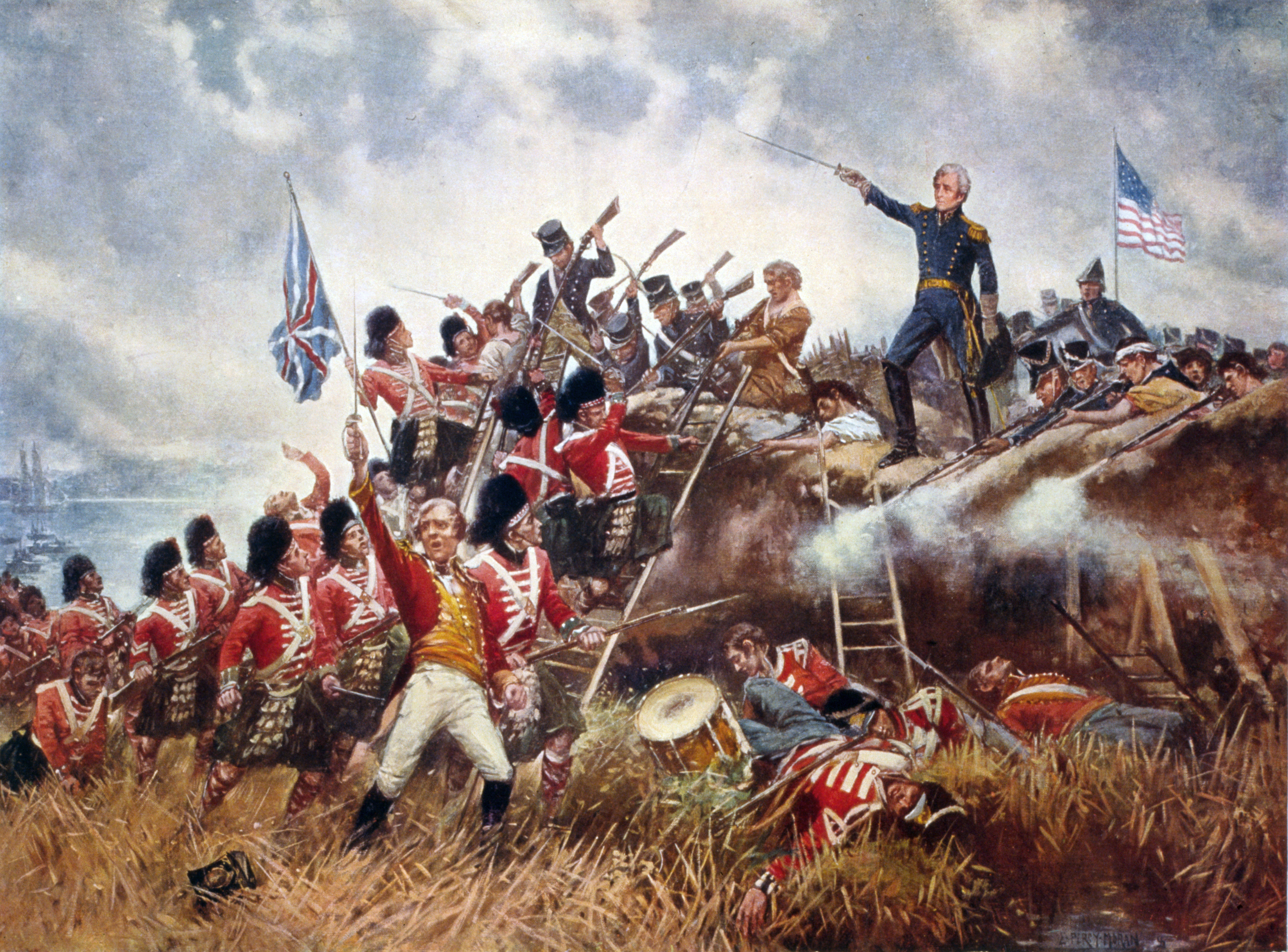 General Andrew Jackson stands on the parapet of his makeshift defenses as his troops repulse attacking Highlanders. (The Highlanders are incorrectly depicted wearing kilts and feather bonnets as the 93rd Highlanders for this campaign had been ordered to wear tartan trousers and plain bonnets - in fact the uniforms shown are more Victorian in style than Georgian. See, "Historical Records of the 93rd Sutherland Highlanders", Roderick Hamilton Burgoyne, London, 1883.